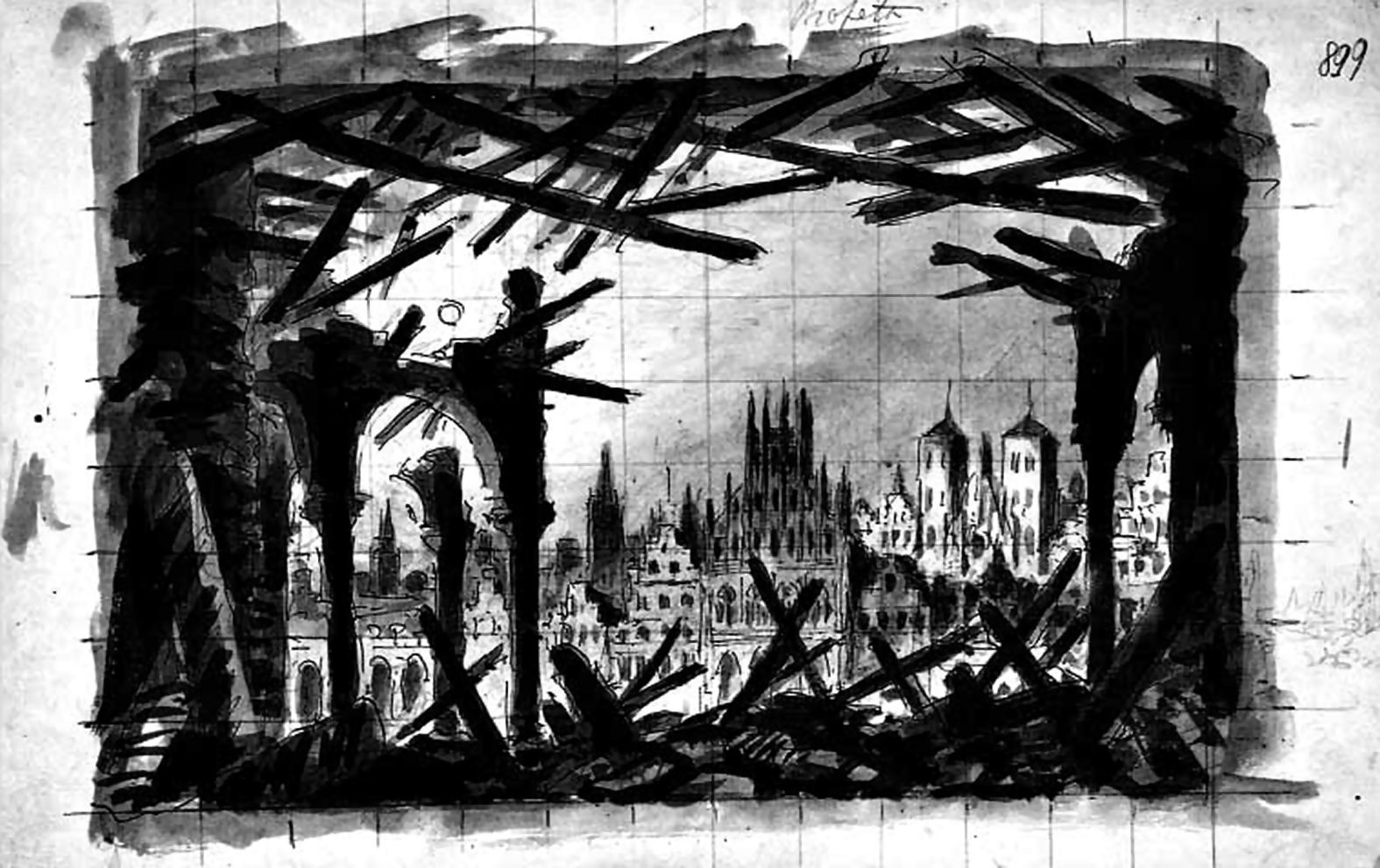 Le Prophète: sketch of the opera set by Giuseppe Bertoja (1804-1873) for the third act (La Fenice, Venice, Italy, 1856)